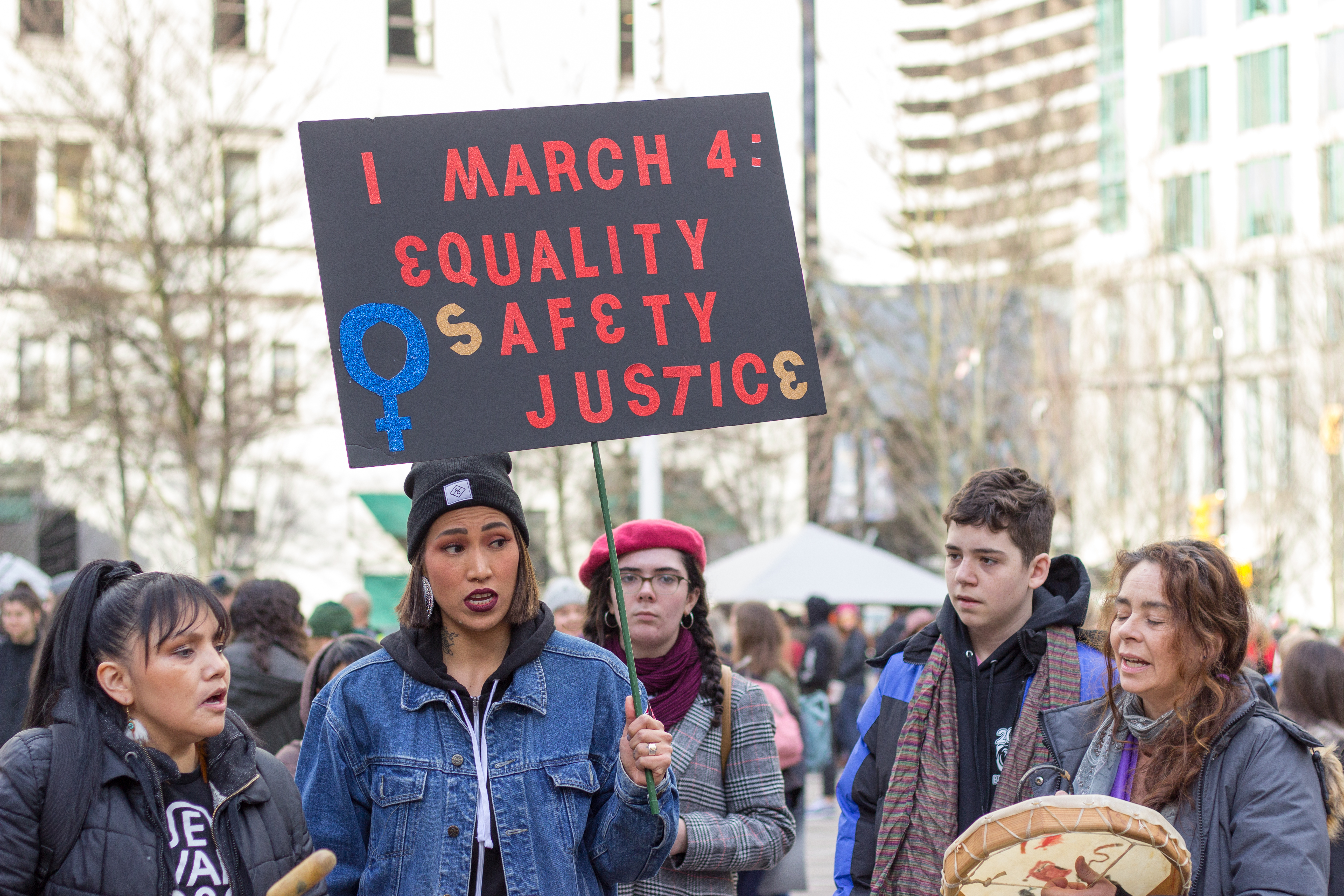 A protester holding a sign stating "I march 4: Equality, Safety, Justice" at the rally portion of the Women's March in Vancouver (January 20 2019)